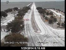 Ice and snow as seen from an FDOT camera on the Bay Bridge in Pensacola, Florida following a winter storm on 28-29 January 2014.